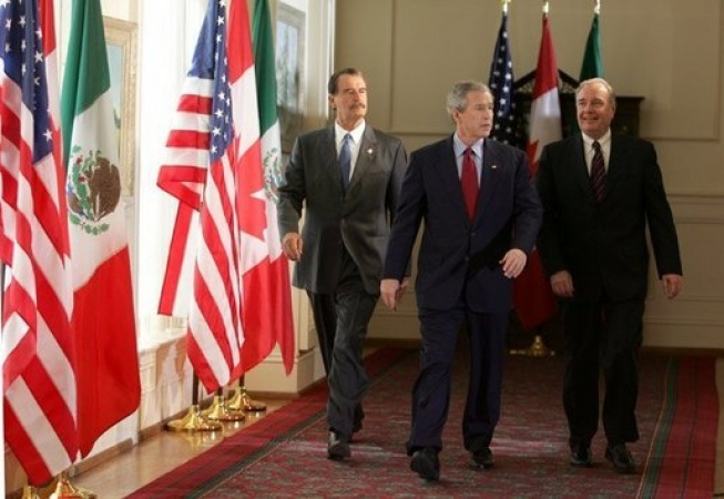 President George W. Bush walks with Mexico President Vicente Fox, left, and Canadian Prime Minister Paul Martin upon their arrival Wednesday, March 23, 2005, at the Bill Daniels Activity Center at Baylor University in Waco, Texas. White House photo by Eric Draper